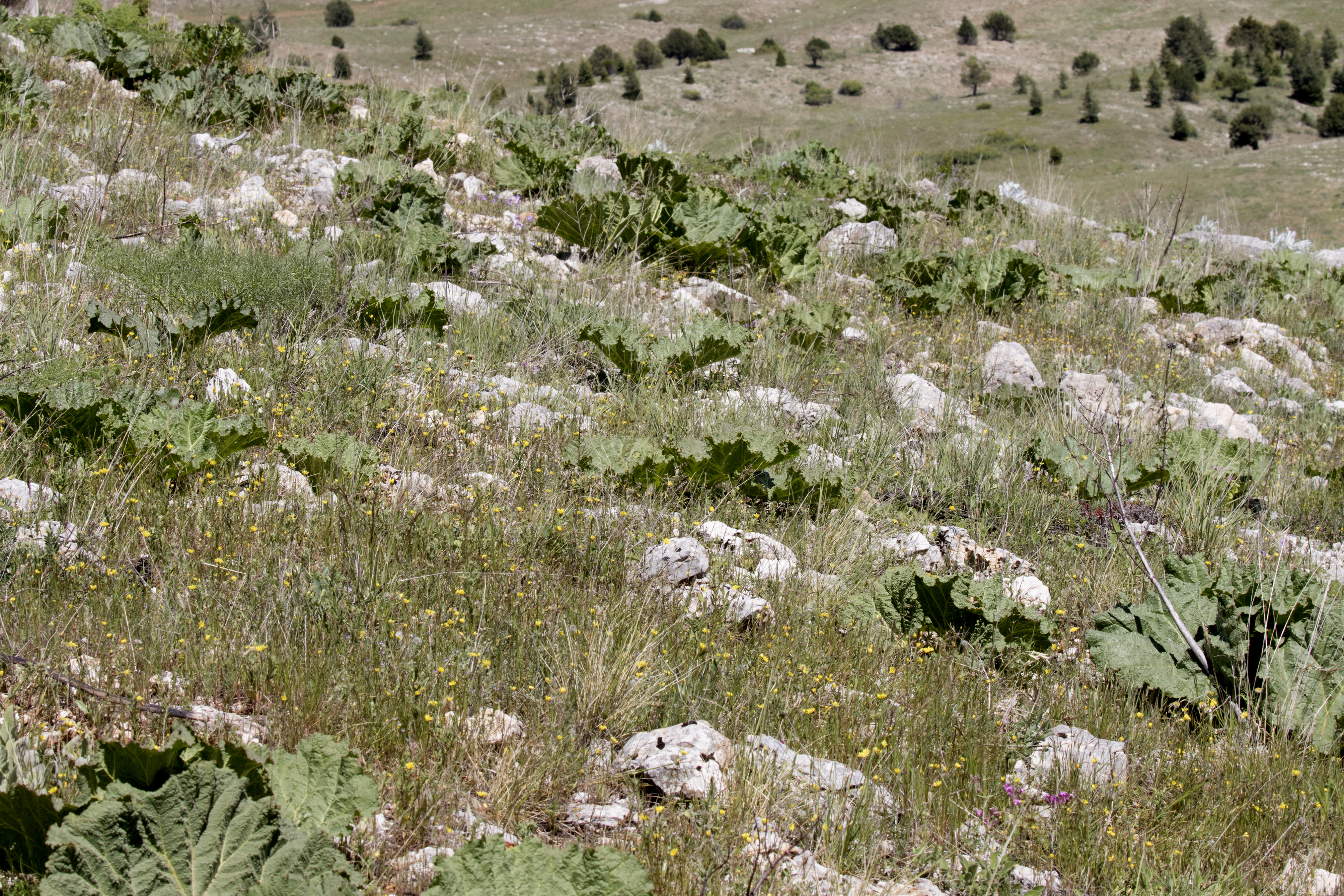 Syrian rhubarbs (Rheum ribes) in Karasakal Mt. Tufanbeyli - Adana, Turkey.